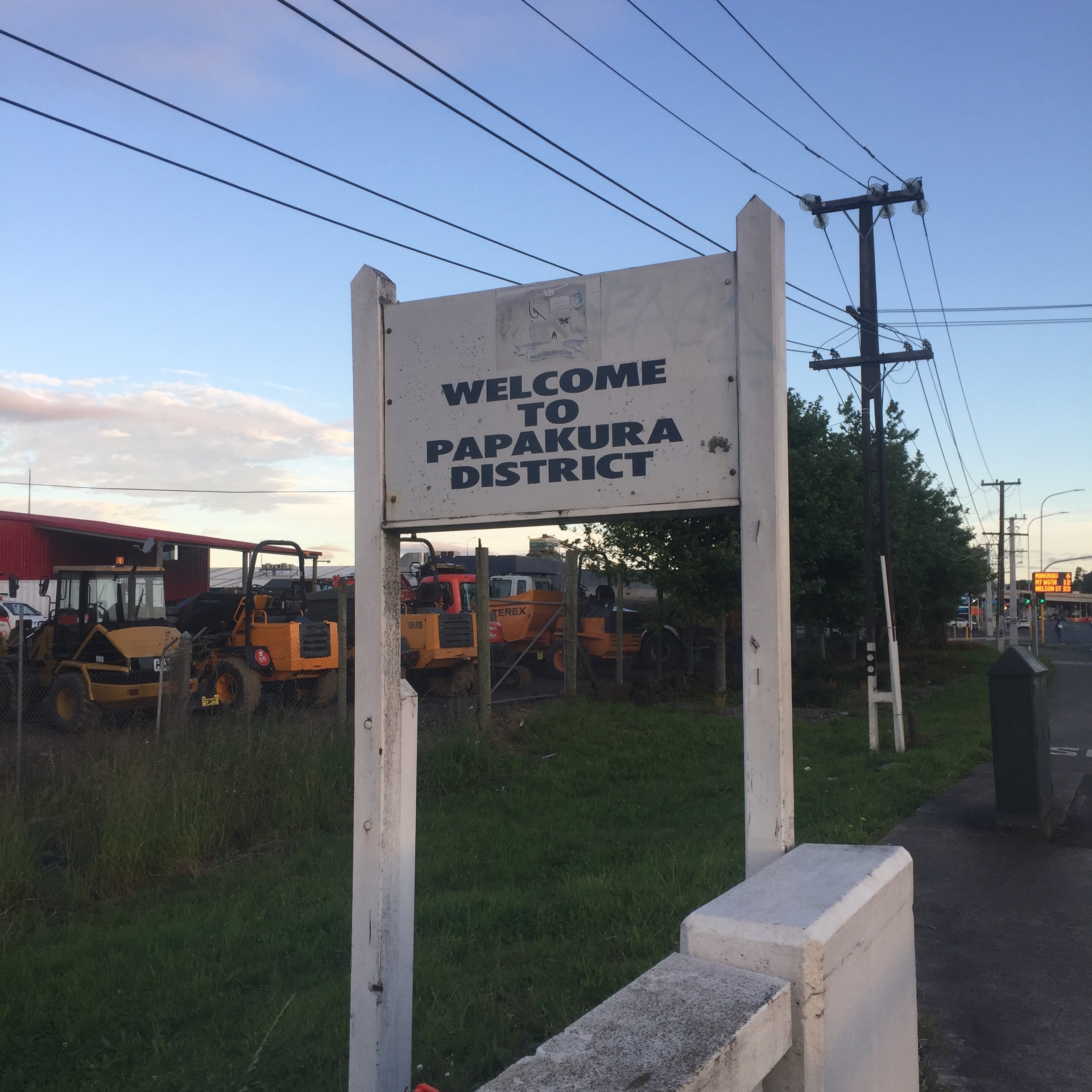 A sign marking the boundary of the former Papakura District, located on Great South Road, just before the Southern Motorway underpass at Takanini.